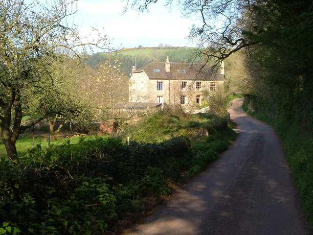 Mill at Painsford. Former mill on the River Harbourne; view looking up the valley. 8:10 am.